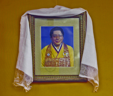 Chogyam Trungpa Rinpoche was closely associated with Maezumi Roshi & Genpo Roshi in ZCLA, and has to this day a powerful influence and presence in the development of Genpo Roshi's Western Zen.